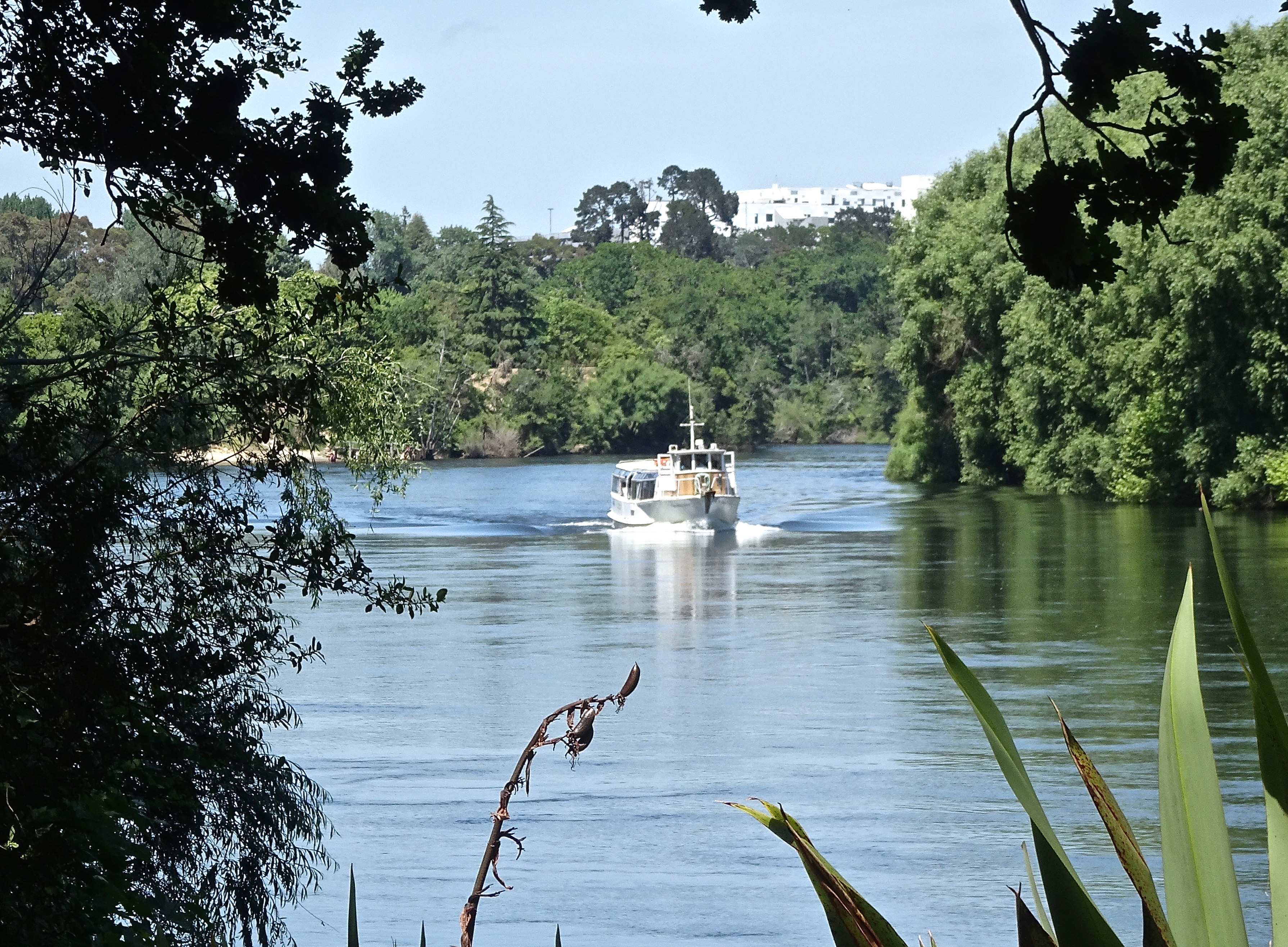 Waikato Hospital in background